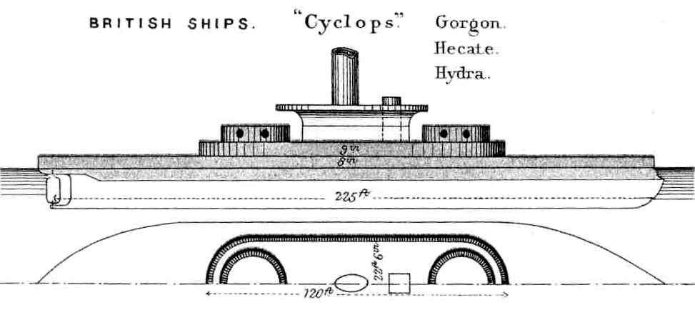 Diagrams depicting right elevation and plan of British "Cyclops" class coastal monitors HMS Cyclops, HMS Gorgon, HMS Hecate and HMS Hydra, of 1871-1903.